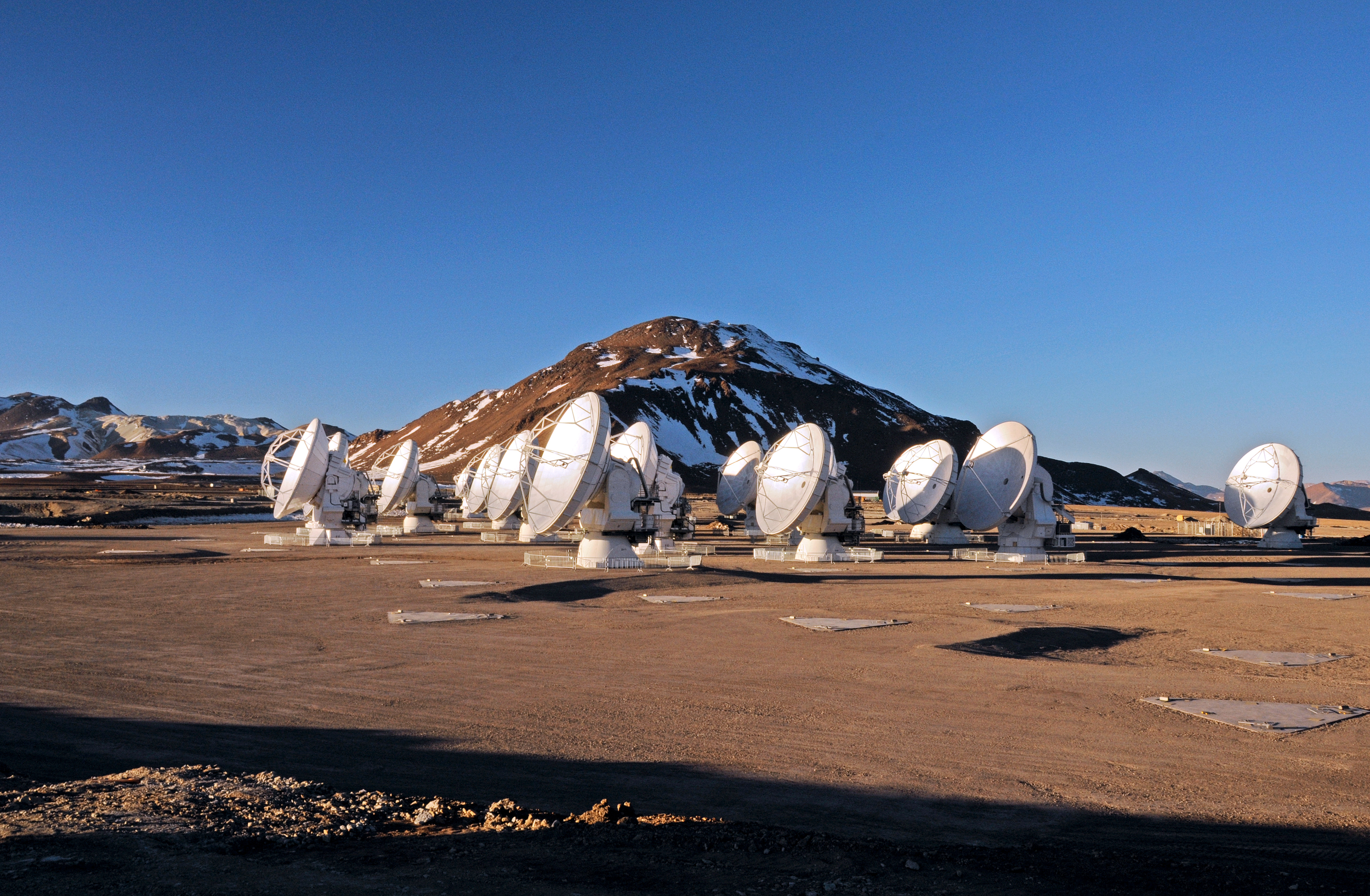 This picture of the ALMA antennas on the Chajnantor Plateau, 5000 m above sea level, was taken a few days before the start of ALMA Early Science. Nineteen antennas are on the plateau.